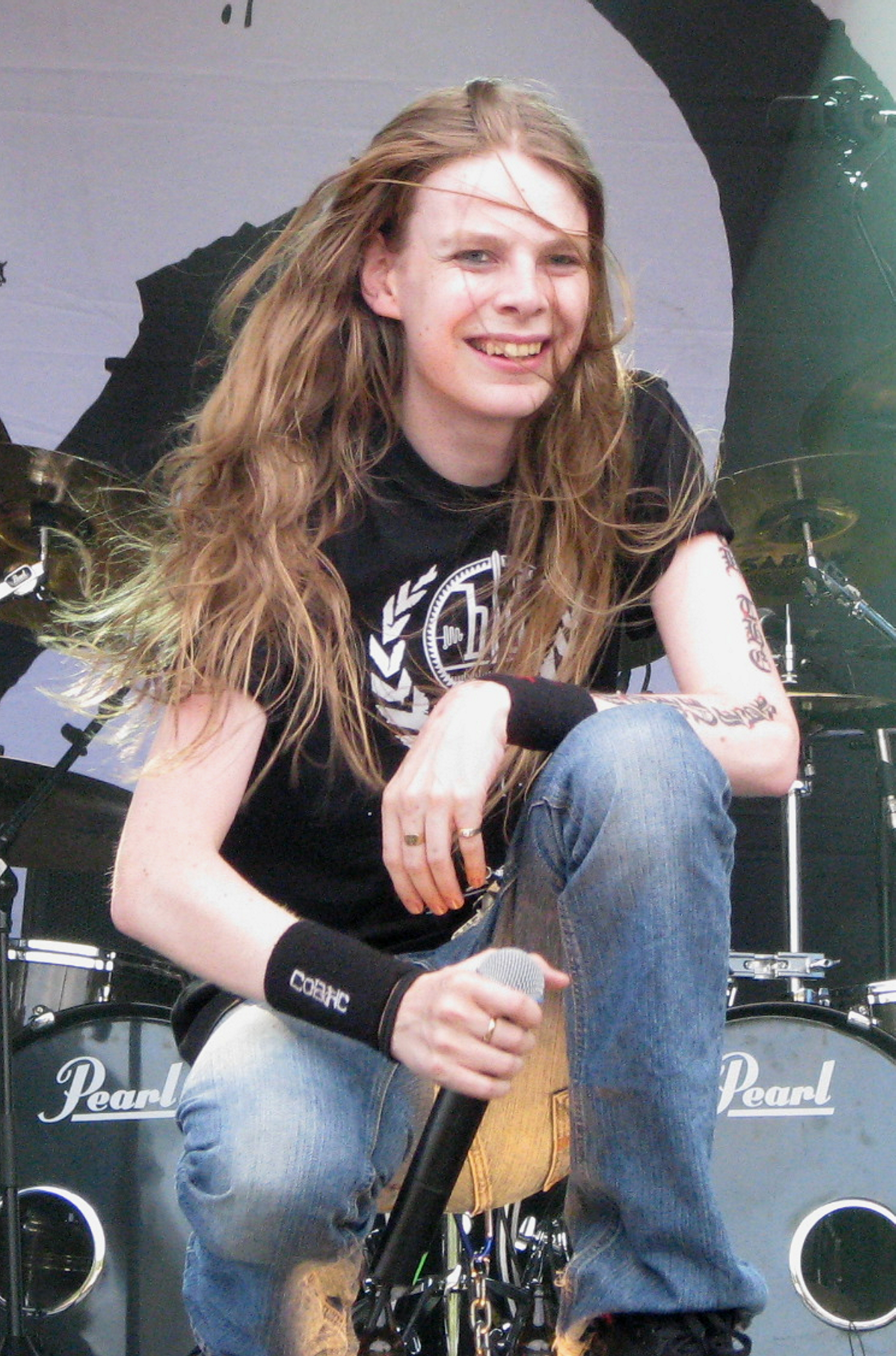 Ari Koivunen with Amoral in Tammela, Finland 2009. Photo: Anne Venäläinen